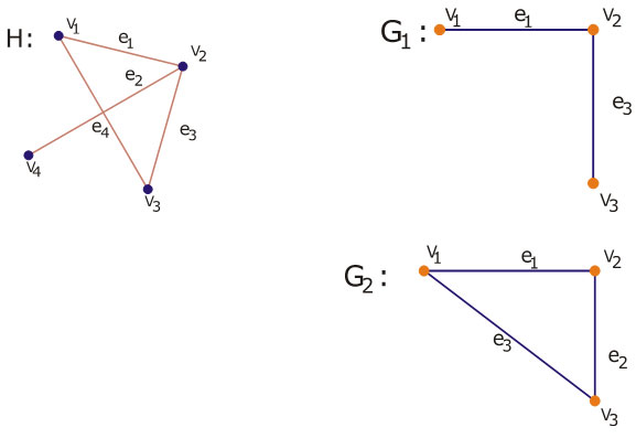 zirgraph